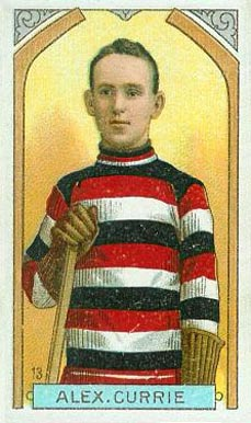 Ice hockey player Alex Currie of the Ottawa Senators on a 1911 Imperial Tobacco hockey card.